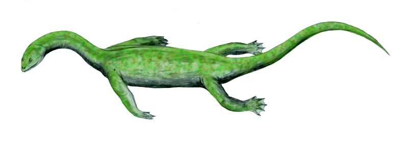 Keichousaurus hui, a pachypleurosaur from the Late triassic of China, pencil drawing